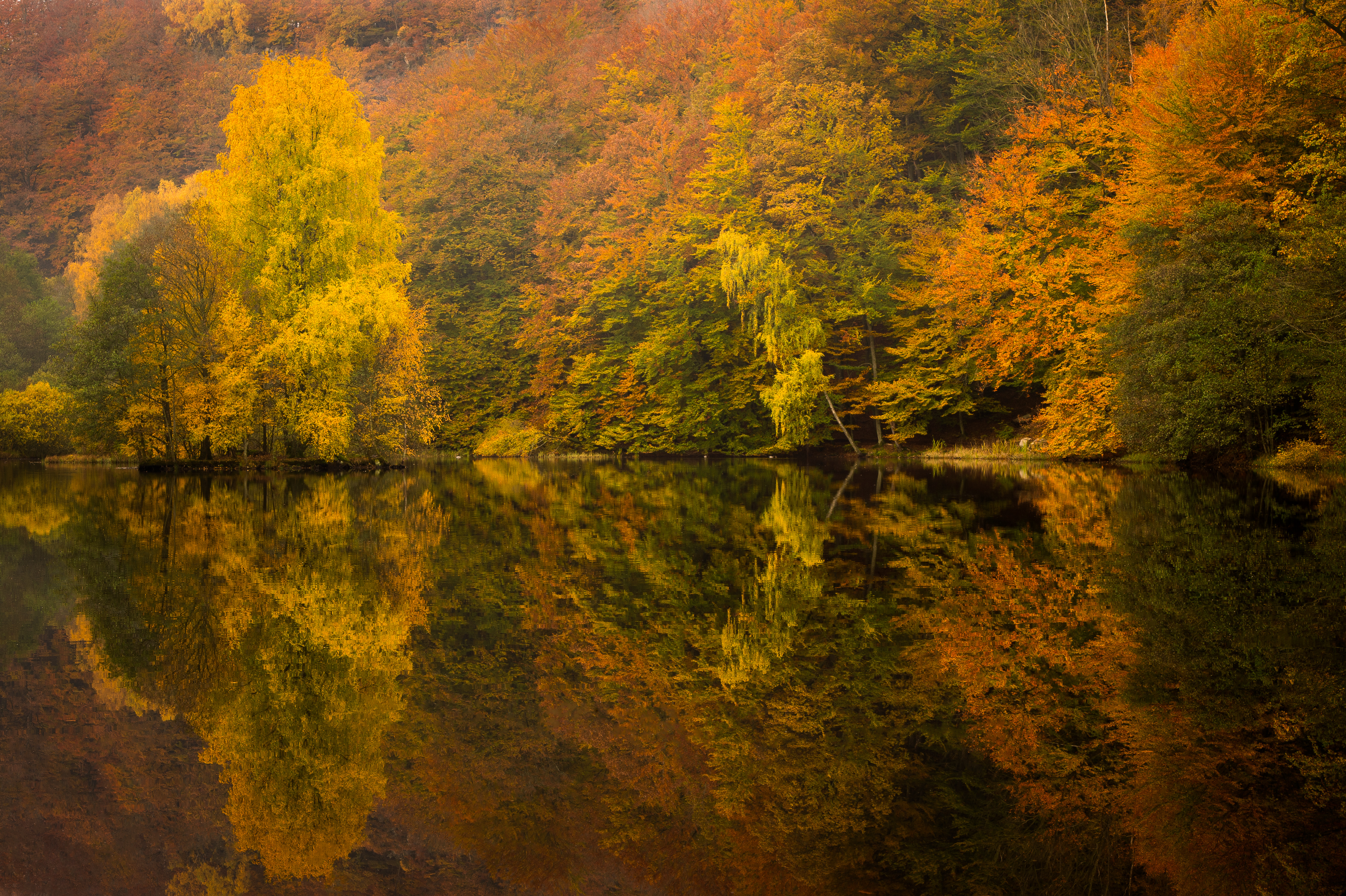 Autumn in Skäralid, a ravine in Söderåsen National Park, northwest Scania, Sweden.